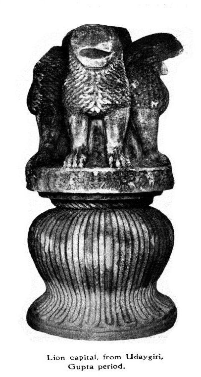 Udayagiri lion capital Gupta period